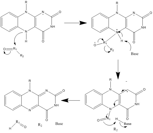 Nucleophilic Substitution using FAD